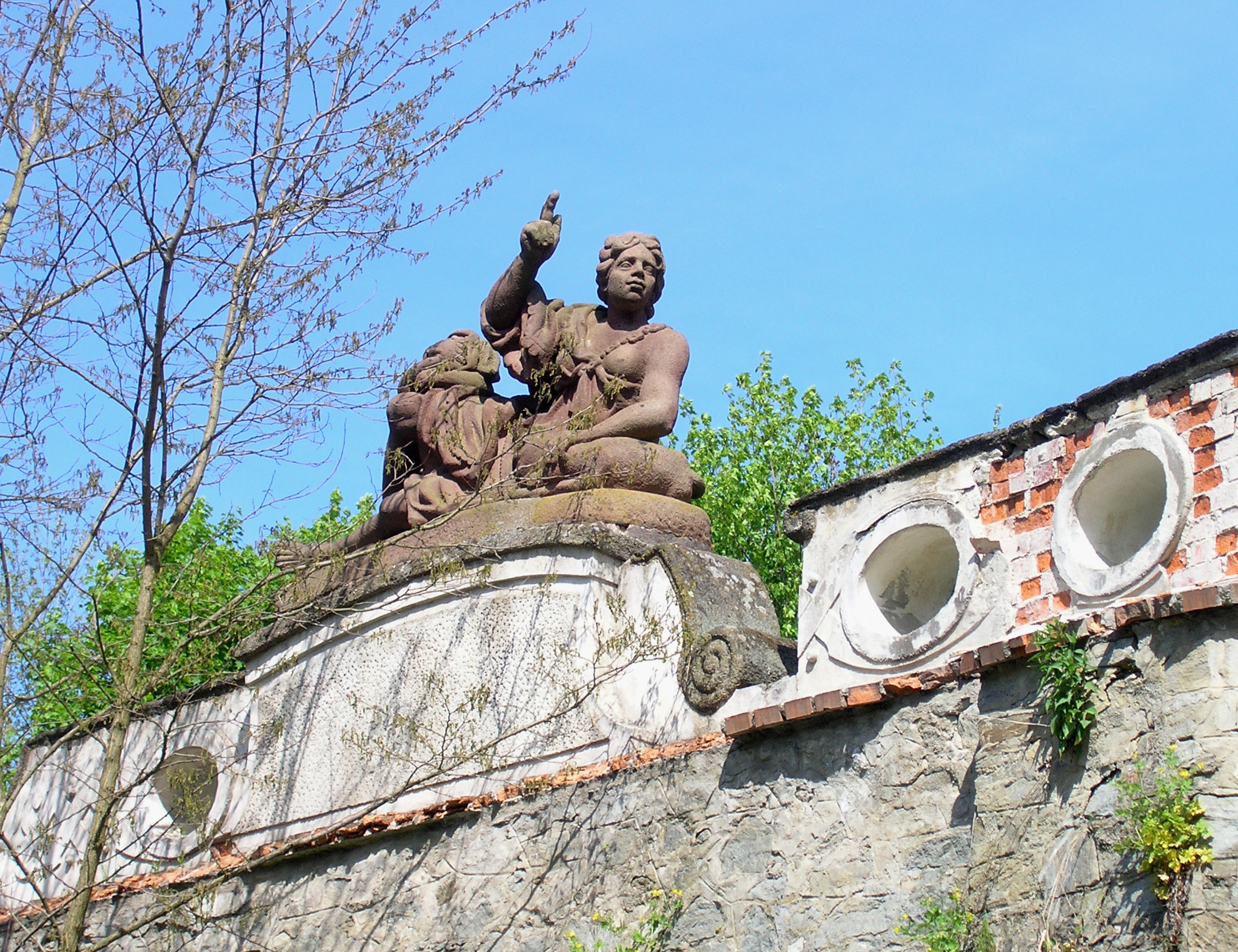 Diana statue in castle gardens (Theatron) in Smilkov village, Czech Republic